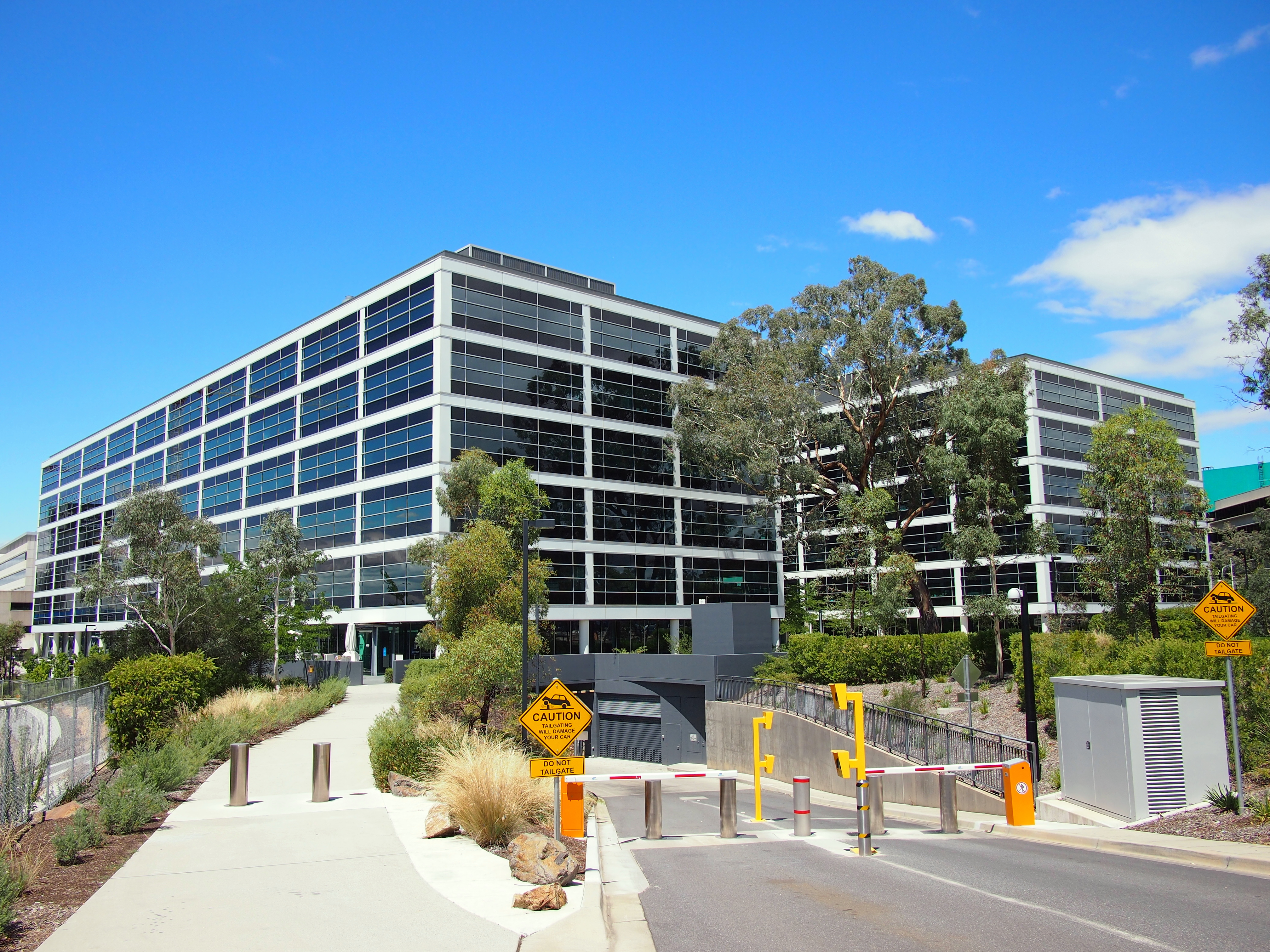 The building which houses the Department of Immigration and Citizenship's national headquarters at 6 Chan Street Belconnen